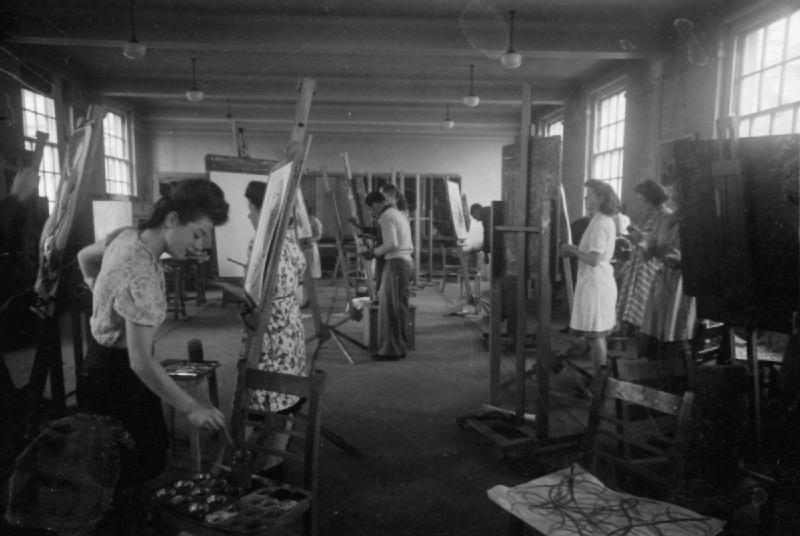 From the Services To Schoolmastering- Re-training at Goldsmith's College, London University, Nottingham, England, 1944 Two of the 28 ex-servicemen training to be teachers at Goldsmiths College (based at Nottingham University since the outbreak of war) are training to have art as their main subject. Here they can be seen taking part in an art class at Nottingham University. The original caption makes much of the fact that most of the Nottingham art students are women : "as the photographer clicks the shutter one [of the men] says 'This'll make the boys jealous'".